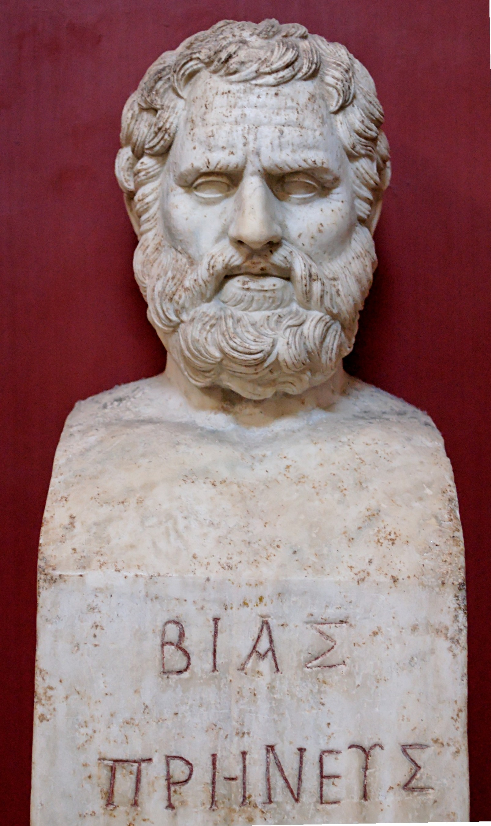 Bust of Bias bearing the inscription “Bias of Priene”. In Greek: ΒΙΑΣ ΠΡΗΝΕΥΣ (BIAS PRĒNEUS), Βίας Πρηνεύς. Marble, Roman copy after a Greek original. From the villa of Cassius near Tivoli, 1774.